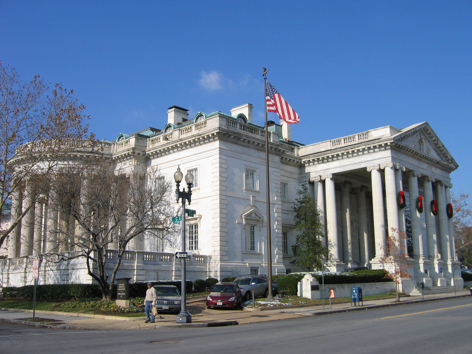 DAR Constitution Hall, located in Washington, D.C., across from the Ellipse